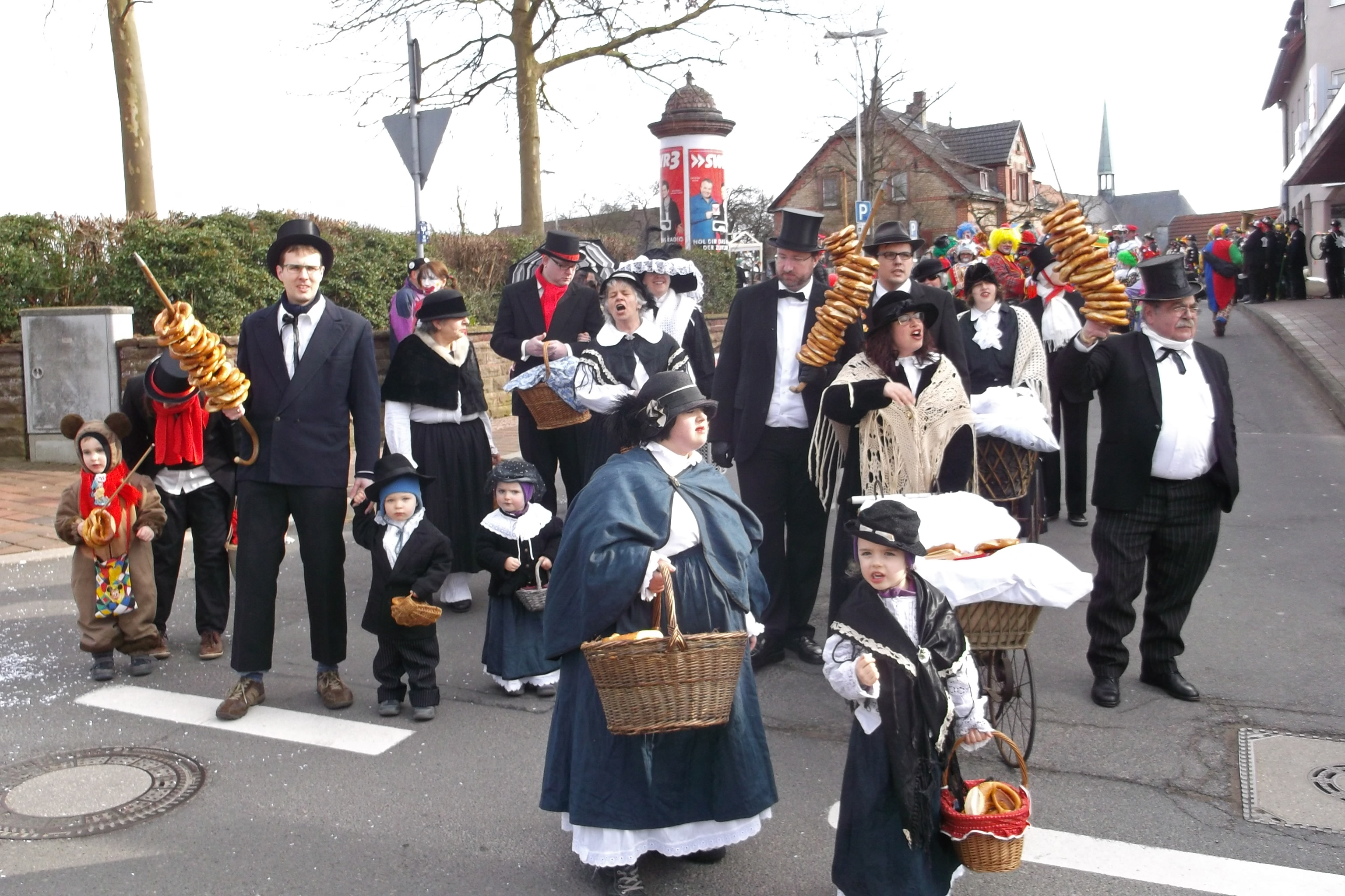 "Man and woman" carnival in Buchen (Odenwald), Germany